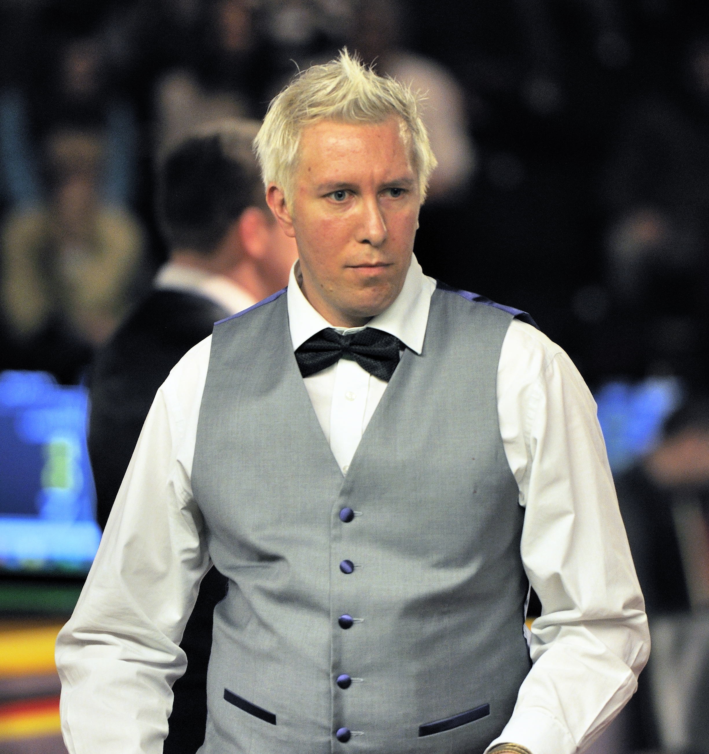 Picture taken in Berlin during the Snooker German Masters in 2014. Dominic Dale.